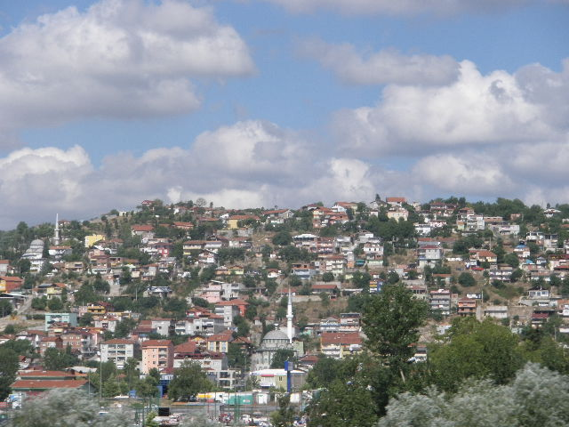 A view of Izmit city